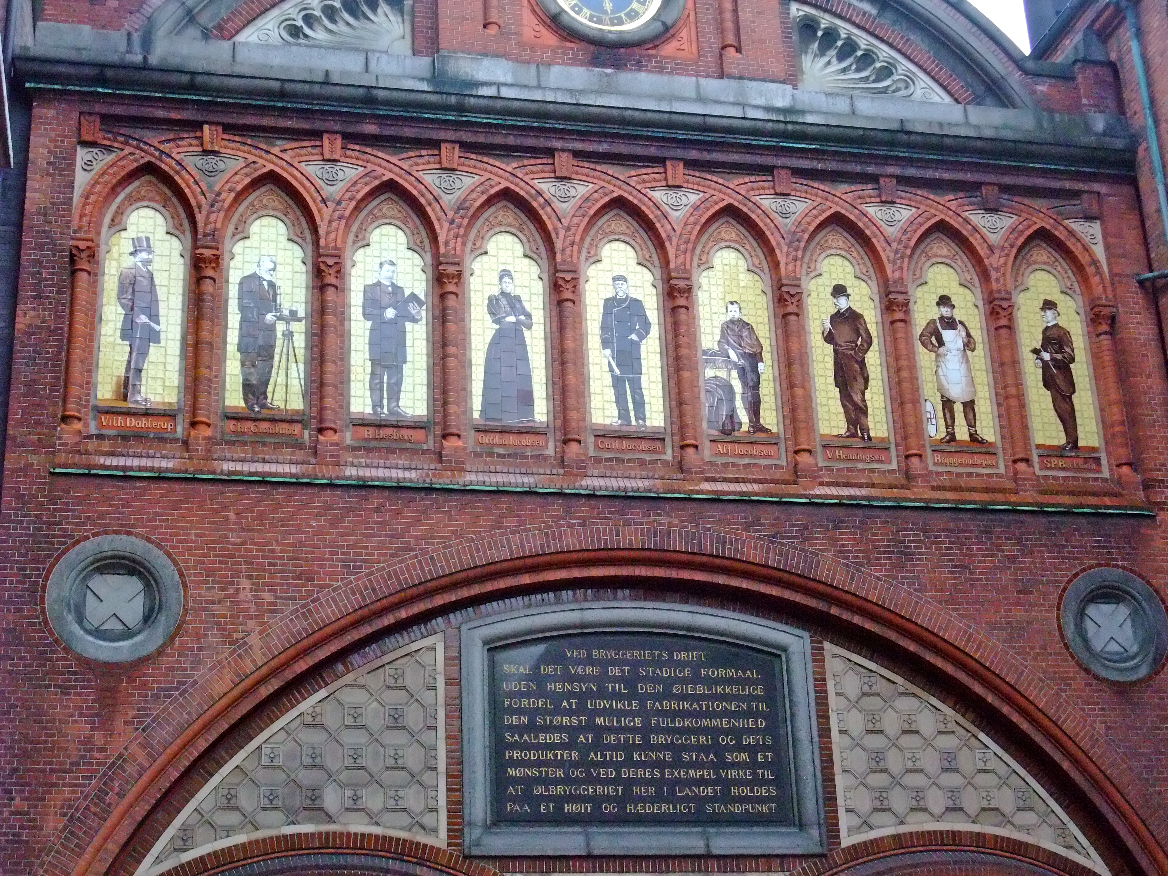 Detail of the portrait gallery on the Dipylon gate at the Carlsberg site in Copenhagen, Denmark